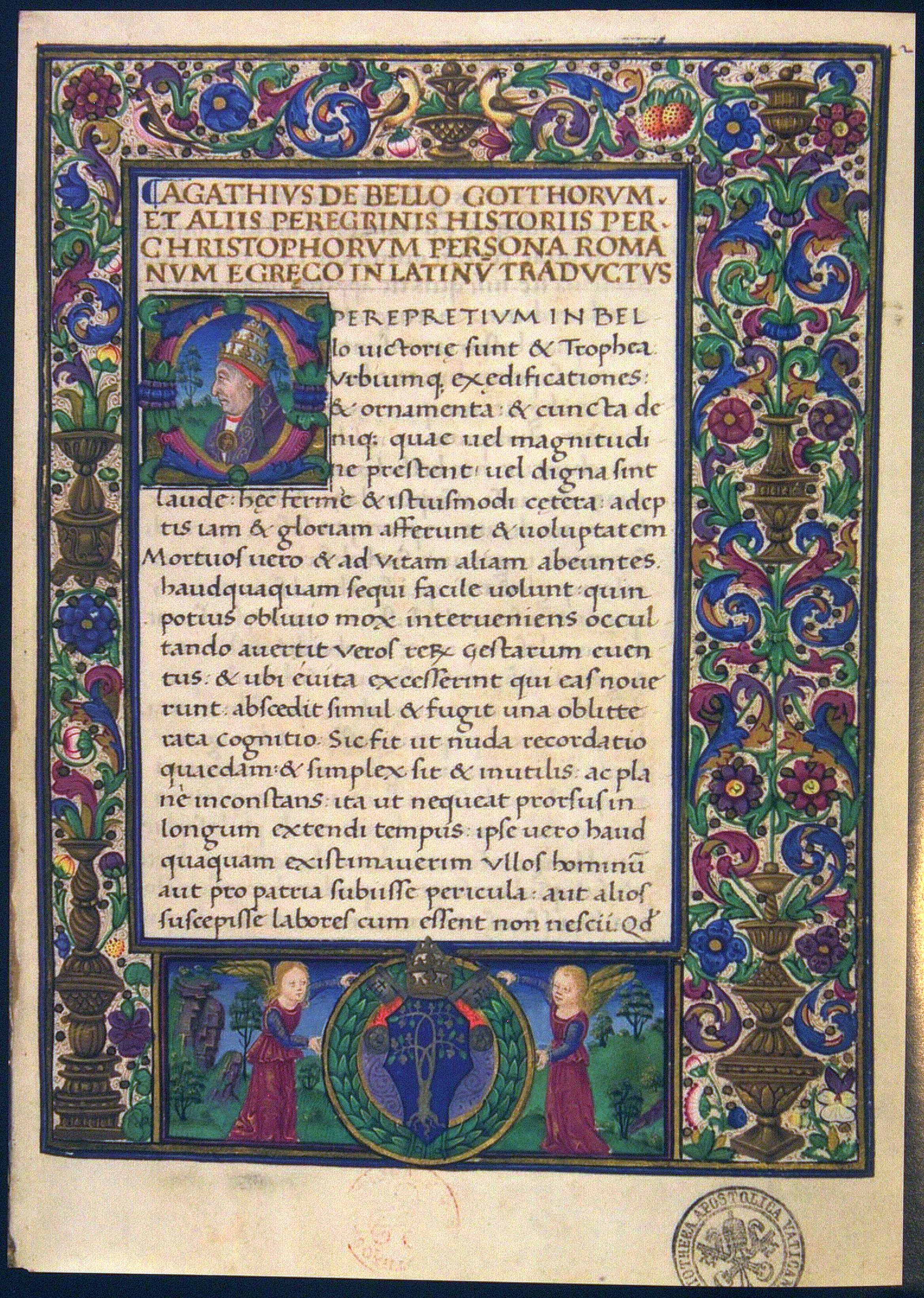 The beginning of Agathias’ “Histories”, Latin translation by Cristoforo Persona, in the dedication copy for Pope Sixtus IV, the manuscript Vatican City, Biblioteca Apostolica Vaticana, Vat. lat. 2004, fol. 2r.